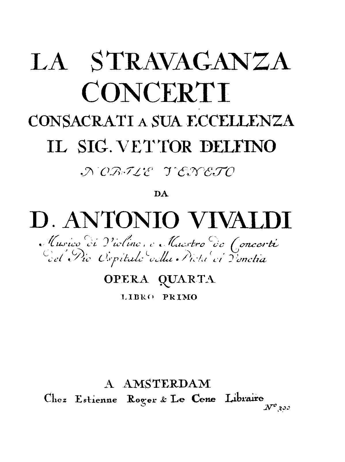 Sheet music cover from La stravaganza by Vivaldi.